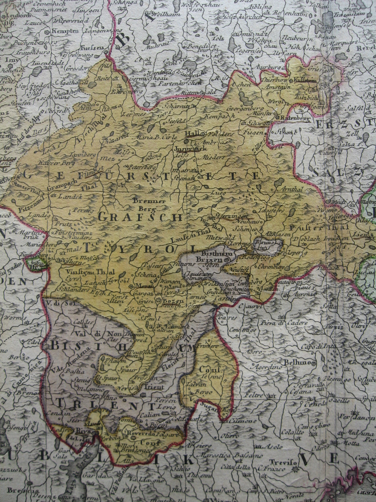 The prince-bishoprics of Trent and of Brixen surrounded by the County of Tyrol (in yellow), which had belonged to the Habsburgs since 1363. Cropped from a map of the Circle of Austria by Homann Heirs, 1788.